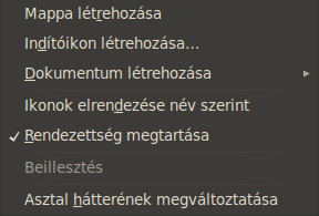 Screenshot of Ubuntu desktop's context menu, Hungarian version